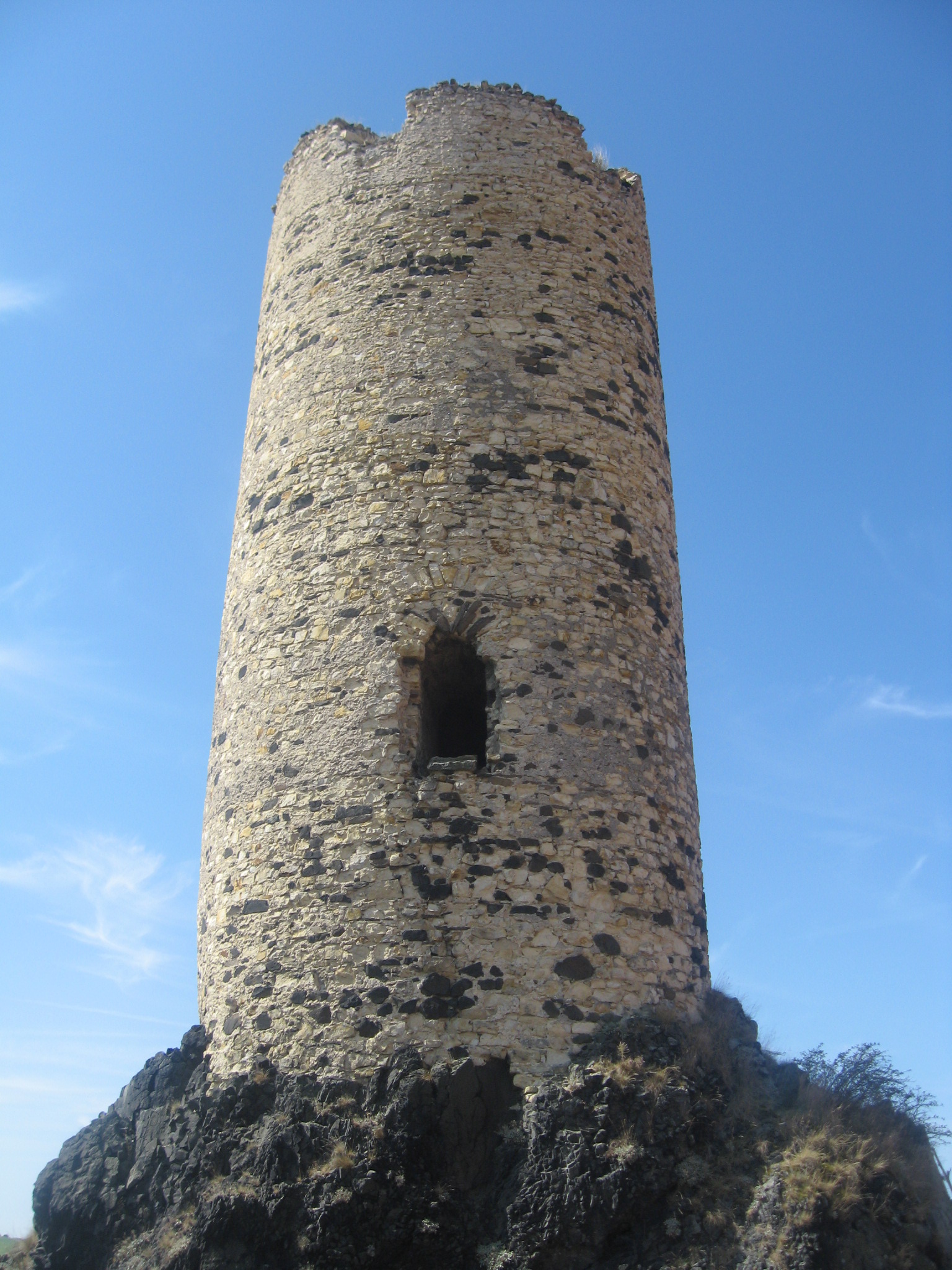 Tower in Castle Skalka, Czech Republic